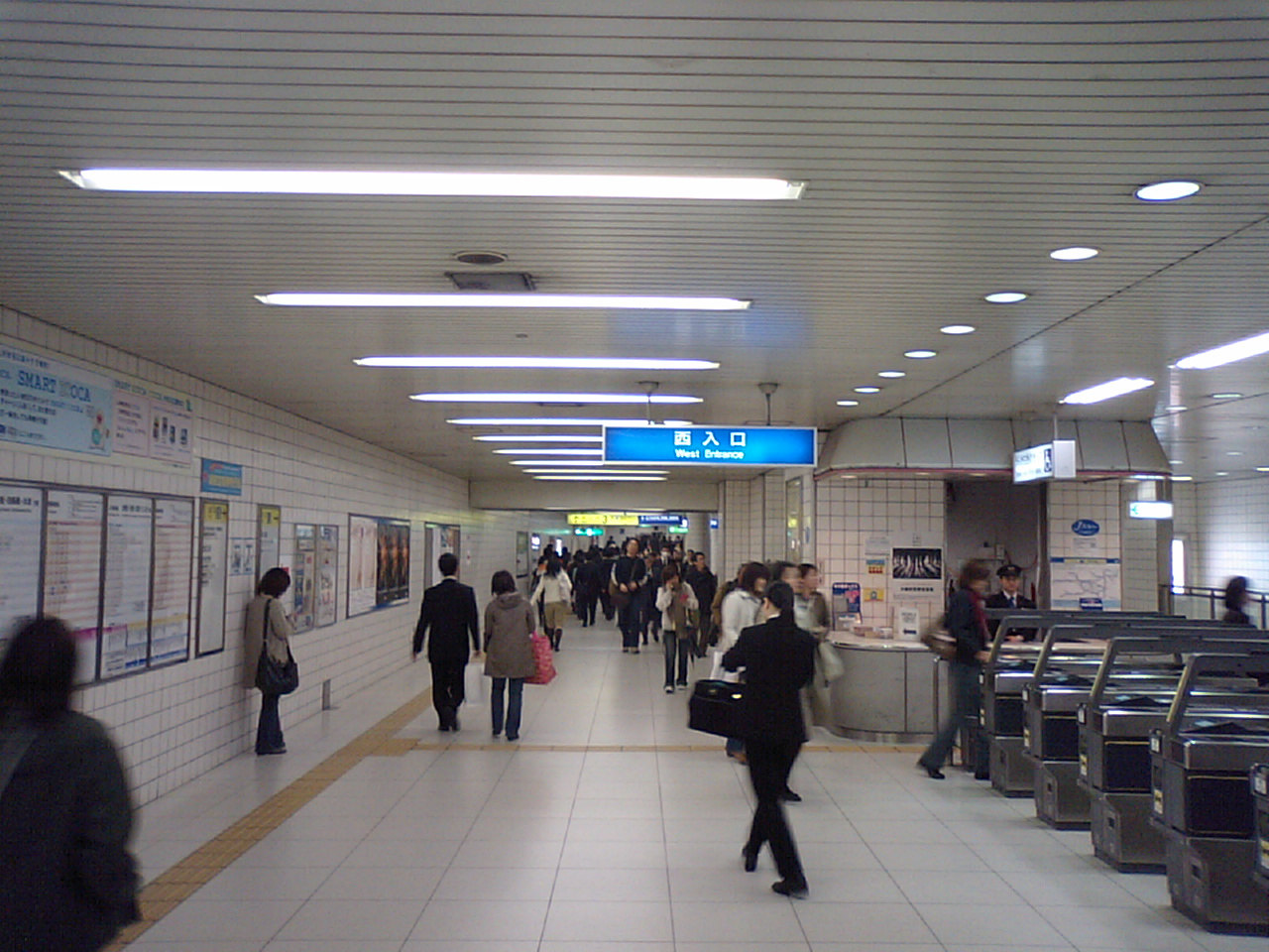 West Gate of Ōsaka-temmangū station.